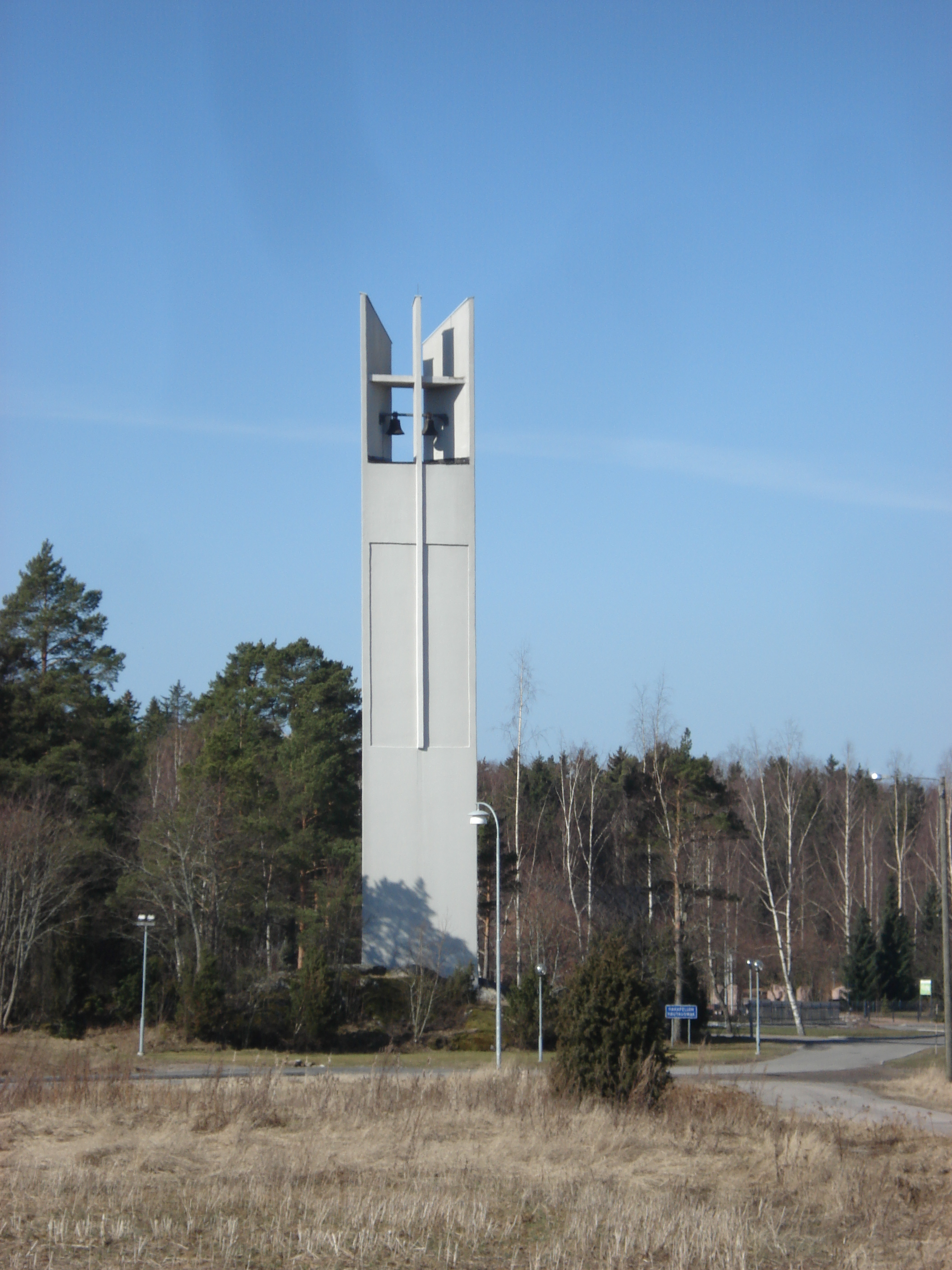 Hakapelto cemetery belfry in Naantali, Finland.